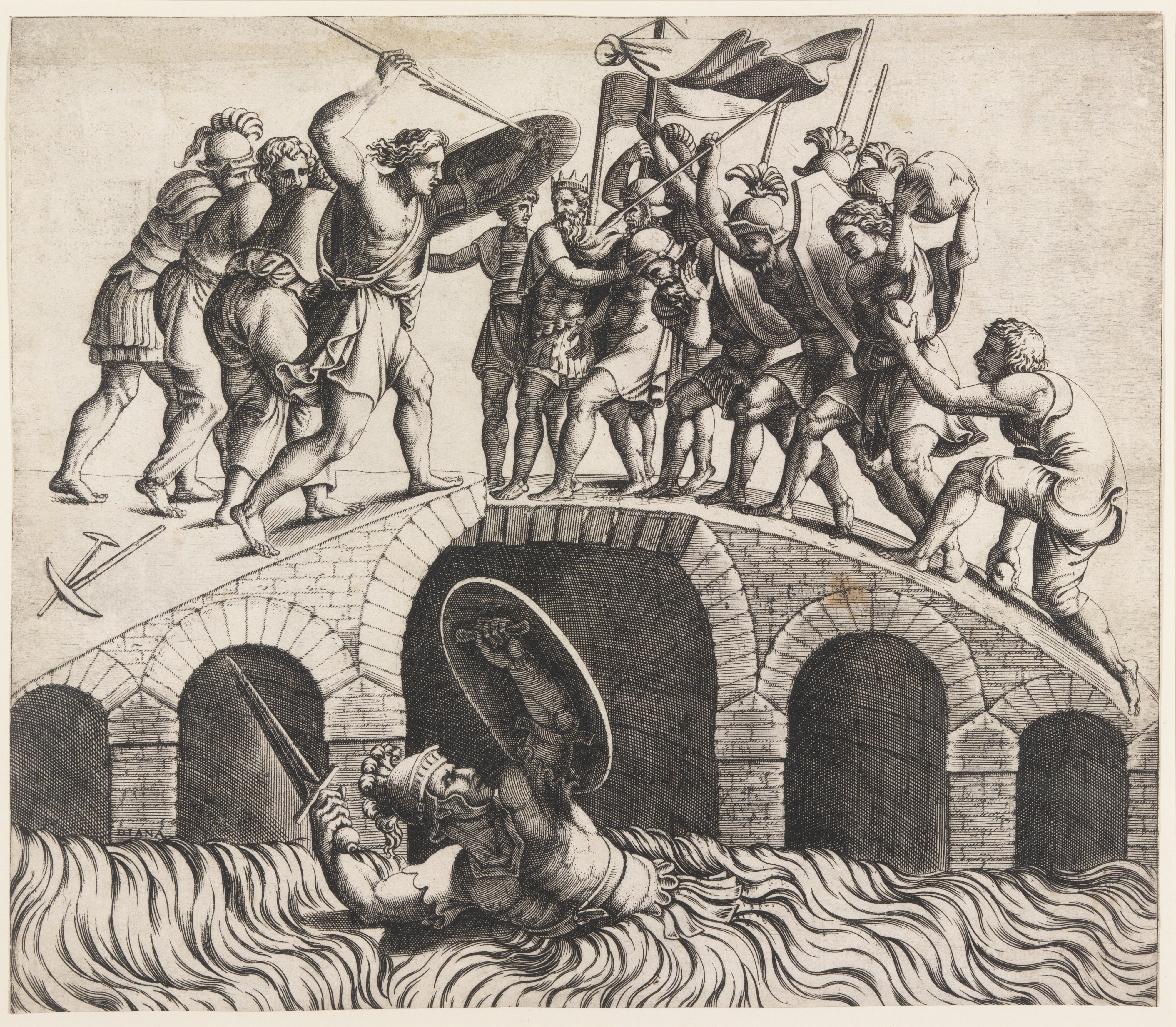 Print; Prints